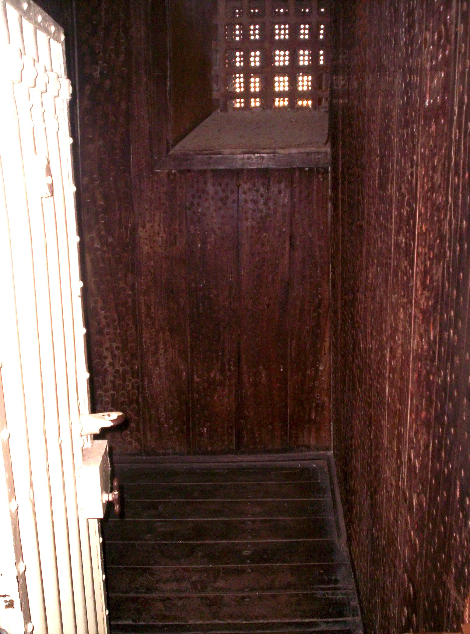 This is a photograph of Moondyne Joe's Jarrah lined "escape-proof" cell, Fremantle Prison.